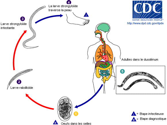 hookworm lifecycle Eggs are passed in the stool , and under favorable conditions (moisture, warmth, shade), larvae hatch in 1 to 2 days. The released rhabditiform larvae grow in the feces and/or the soil , and after 5 to 10 days (and two molts) they become filariform (third-stage) larvae that are infective . These infective larvae can survive 3 to 4 weeks in favorable environmental conditions. On contact with the human host, the larvae penetrate the skin and are carried through the veins to the heart and then to the lungs. They penetrate into the pulmonary alveoli, ascend the bronchial tree to the pharynx, and are swallowed . The larvae reach the small intestine, where they reside and mature into adults. Adult worms live in the lumen of the small intestine, where they attach to the intestinal wall with resultant blood loss by the host . Most adult worms are eliminated in 1 to 2 years, but longevity records can reach several years. Some A. duodenale larvae, following penetration of the host skin, can become dormant (in the intestine or muscle). In addition, infection by A. duodenale may probably also occur by the oral and transmammary route. N. americanus, however, requires a transpulmonary migration phase.